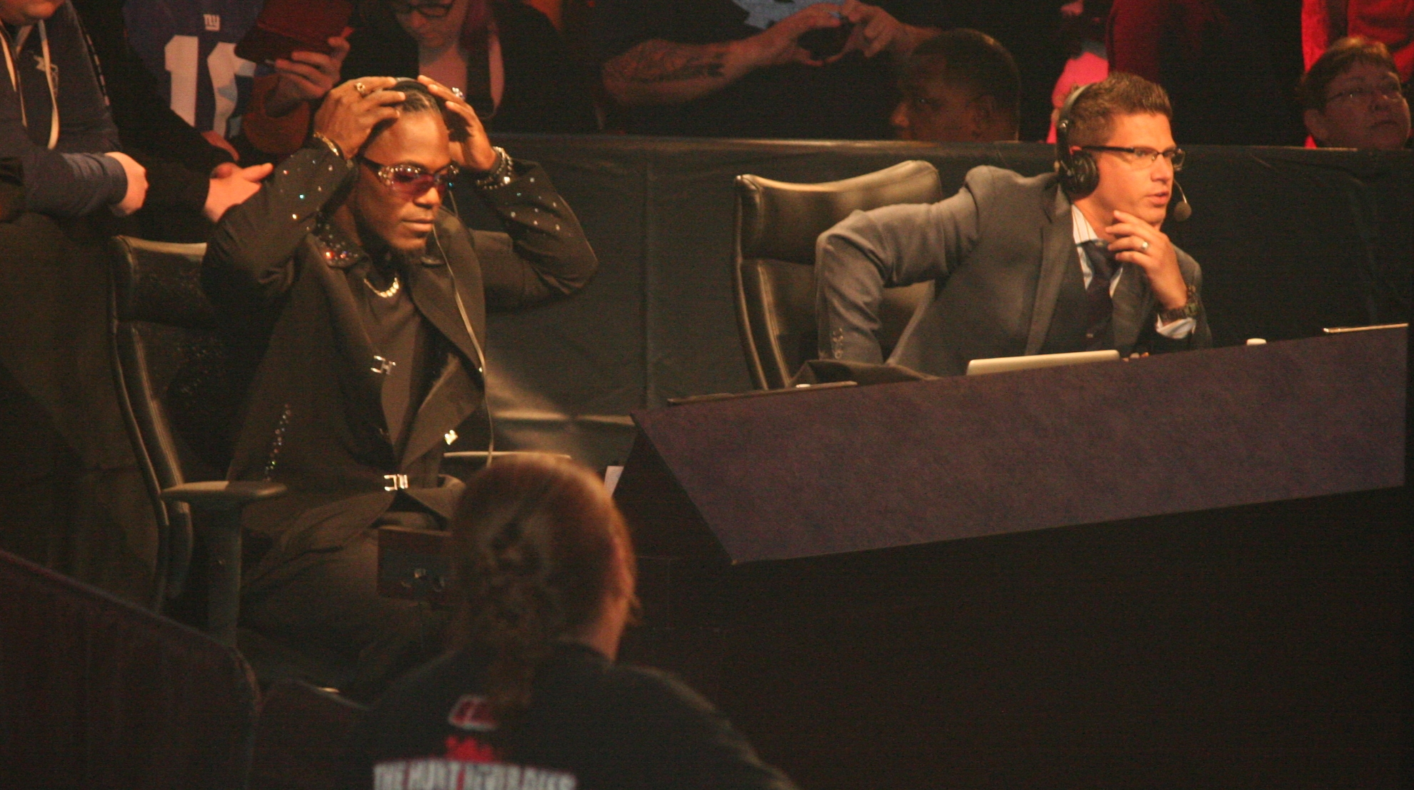 D'Angelo Dinero and Josh Mathews commentating at ringside at Bound for Glory in 2015.